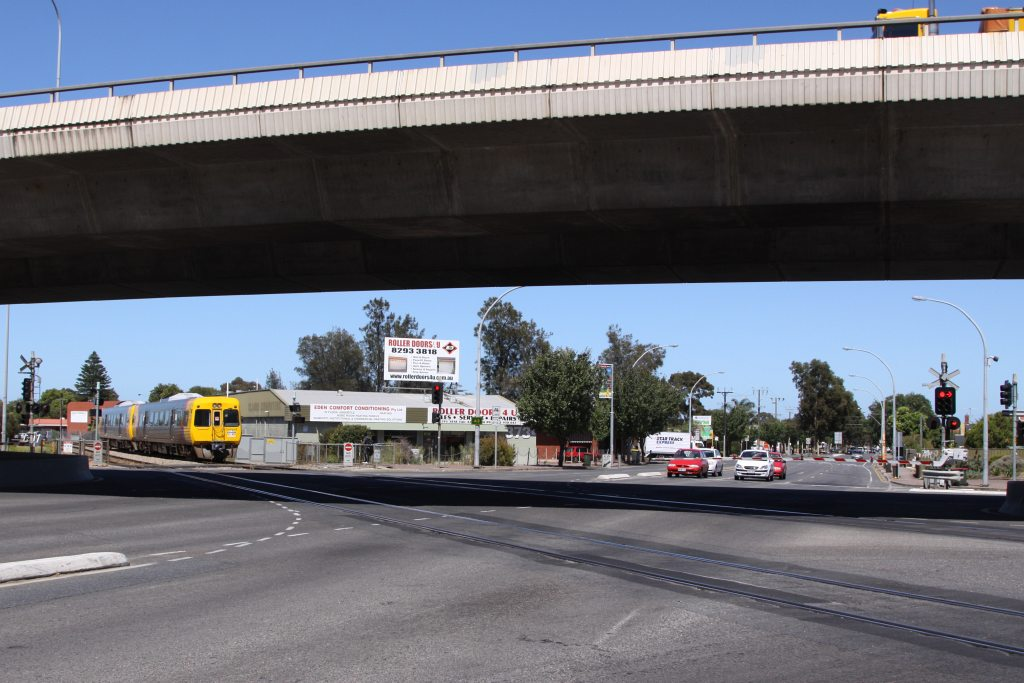 Looking west on Cross Road, as a TransAdelaide 3000 class railcar passes through Emerson Crossing - the three way level crossing between South Road, Cross Road and the Noarlunga Centre railway line in Adelaide, South Australia.